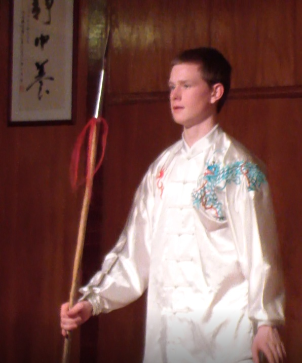 Petr Vitouš (* 1995) – after attending an instructor's seminar hosted by Master Zhu Tiancai in Chenjiagou; since 2015 instructor of chen style tai chi quan. In August 2013, he won a silver medal for a set of forms with a spear and a gold medal for a set of forms without a weapon at an international competition in Jiao-zuo, China.